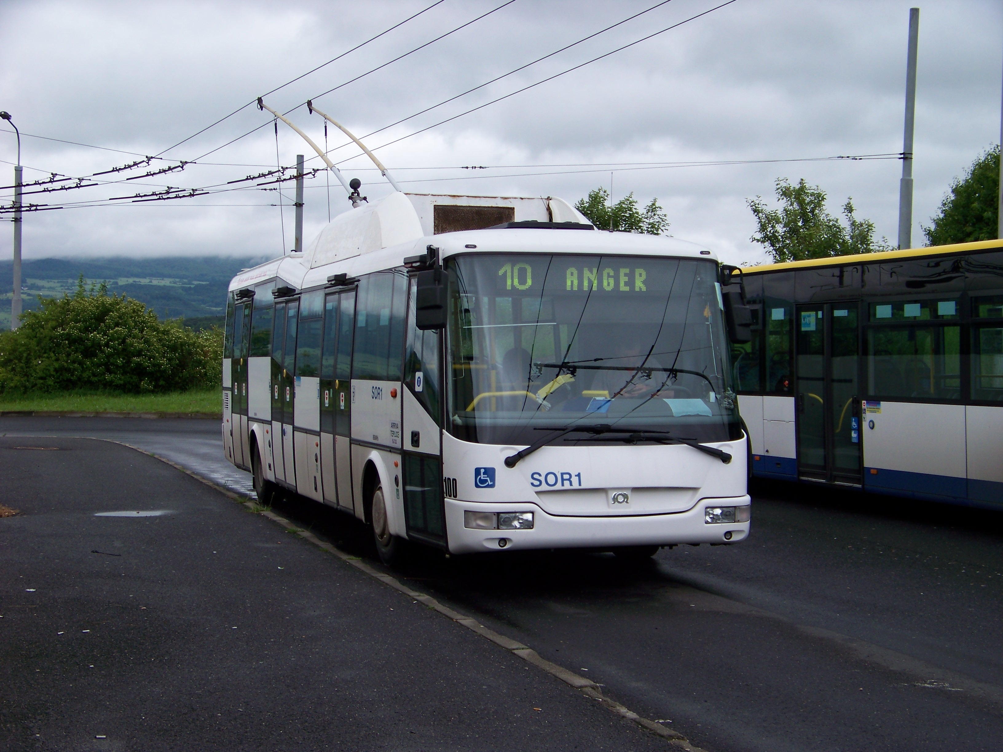 Teplice-Nová Ves, Teplice District, Ústí nad Labem Region, Czech Republic. Topolová street, bus stop Nová Ves. Trolleybus SOR TN 12A.